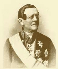 Image of Édouard Thilges (1817 - 1904), Prime Minister of Luxembourg from 1885 to 1888